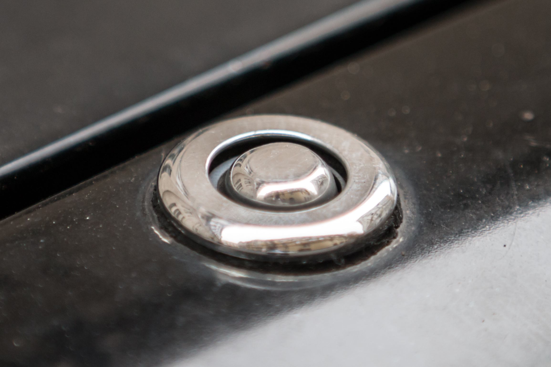 Mercedes-Benz W 140